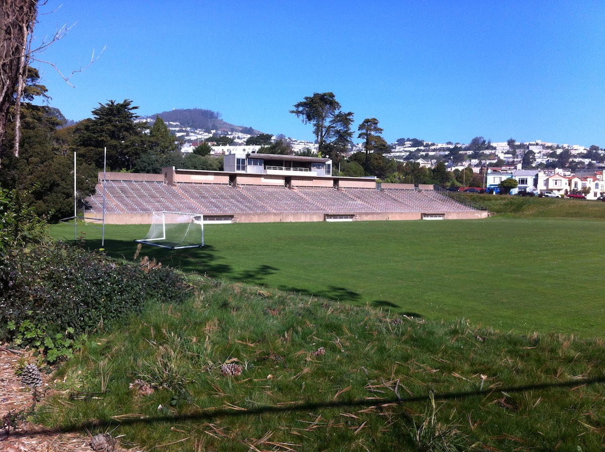 Boxer Stadium (also known as Matthew J. Boxer Stadium) is a soccer stadium in San Francisco, California. It is owned and operated by the San Francisco Recreation and Parks Department. Located within the confines of Balboa Park, the stadium has a capacity of 3,500.